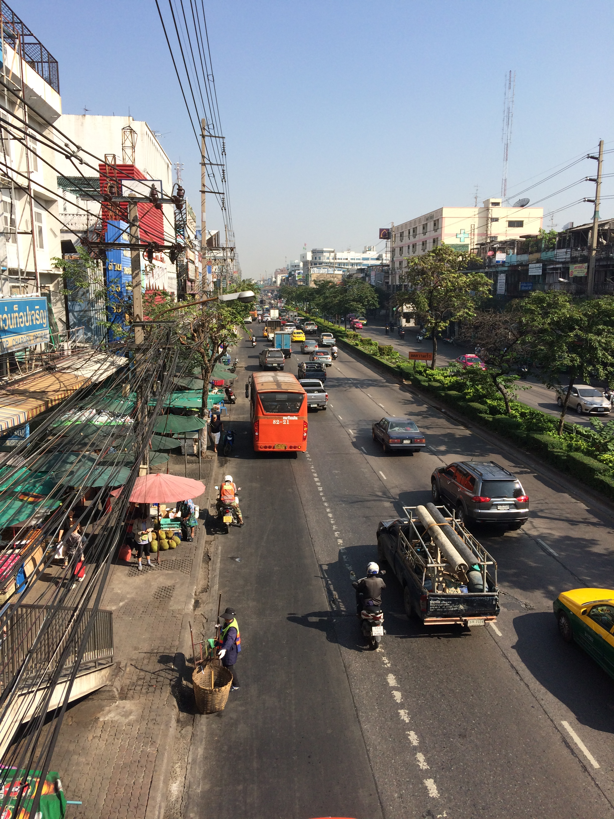 Thanon Somdet Phra Chao Tak Sin.